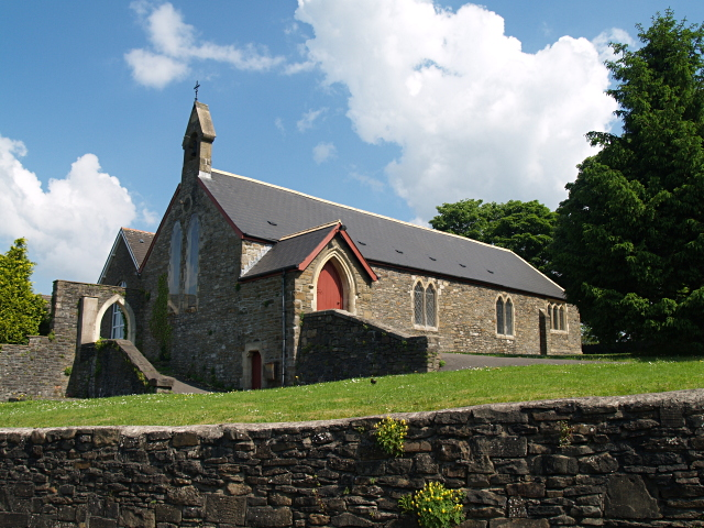 Glais Church, near to Glais, Swansea/Abertawe, Great Britain.